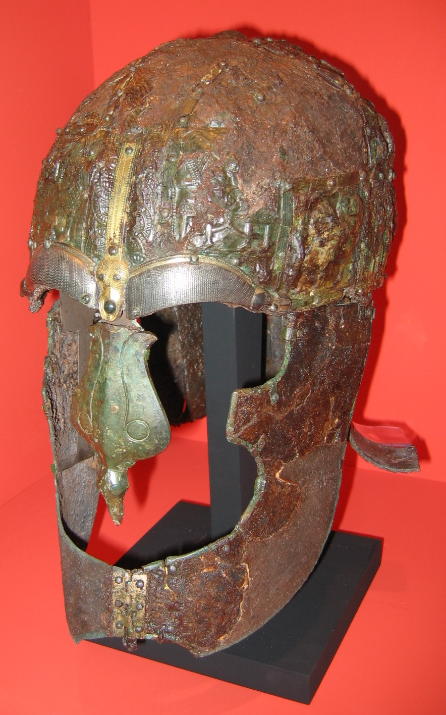 Vendel 14 helmet from Vendel parish, Örbyhus hundred, Tierp municipality, Uppsala county, Uppland, Sweden. Photo taken at the Swedish Museum of National Antiquities in Stockholm.